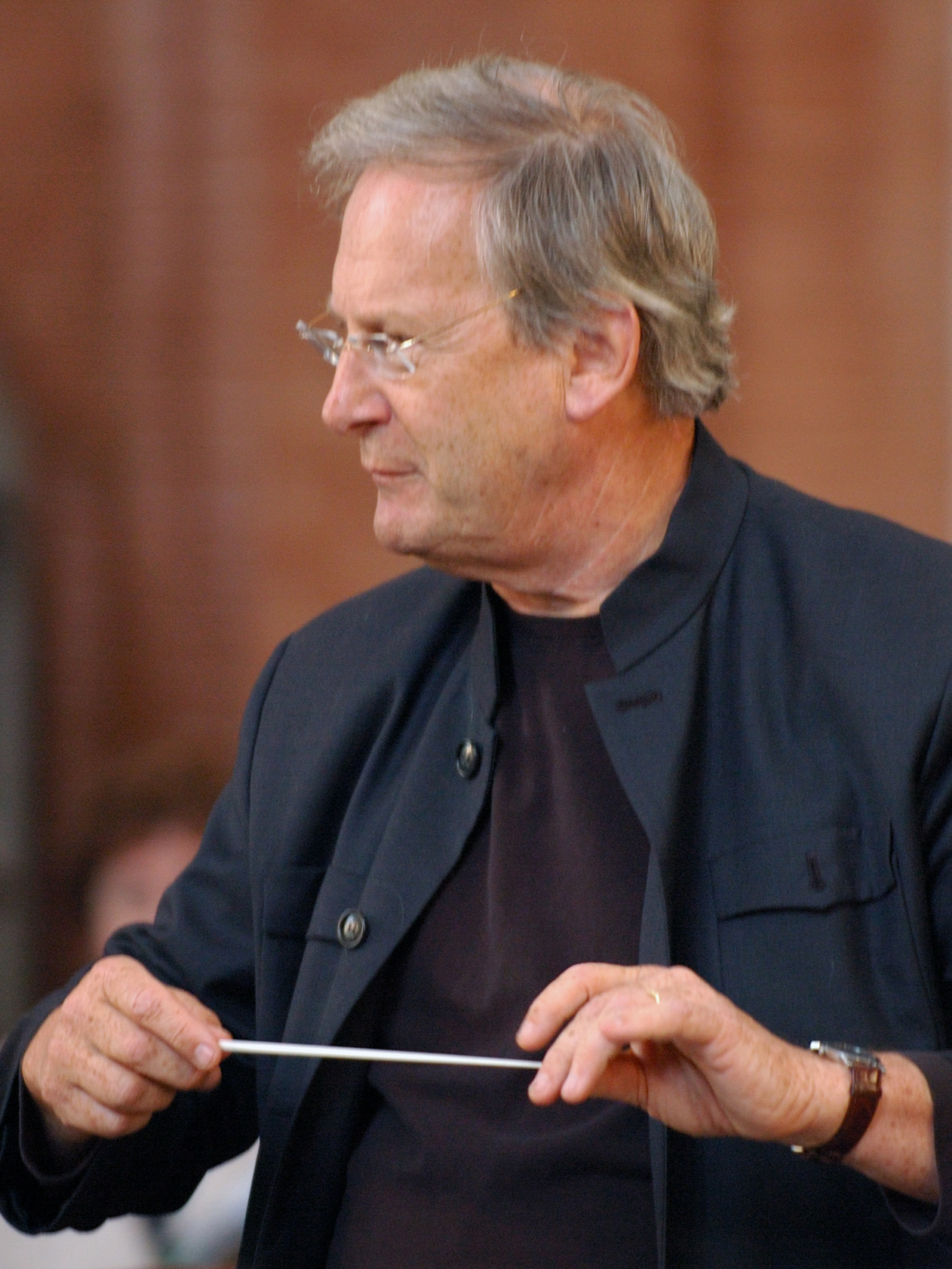 Conductor Sir John Eliot Gardiner at rehearsal in Wrocław (Poland) during the Wratislavia Cantans Festival (Photo taken by Maciej Goździelewski)